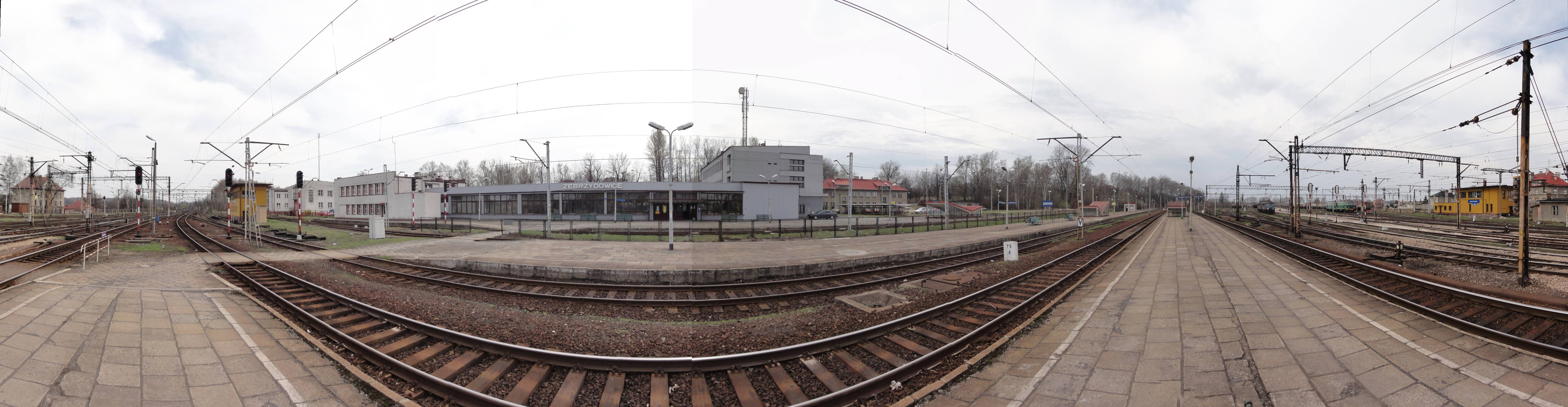 Train station in Zebrzydowice